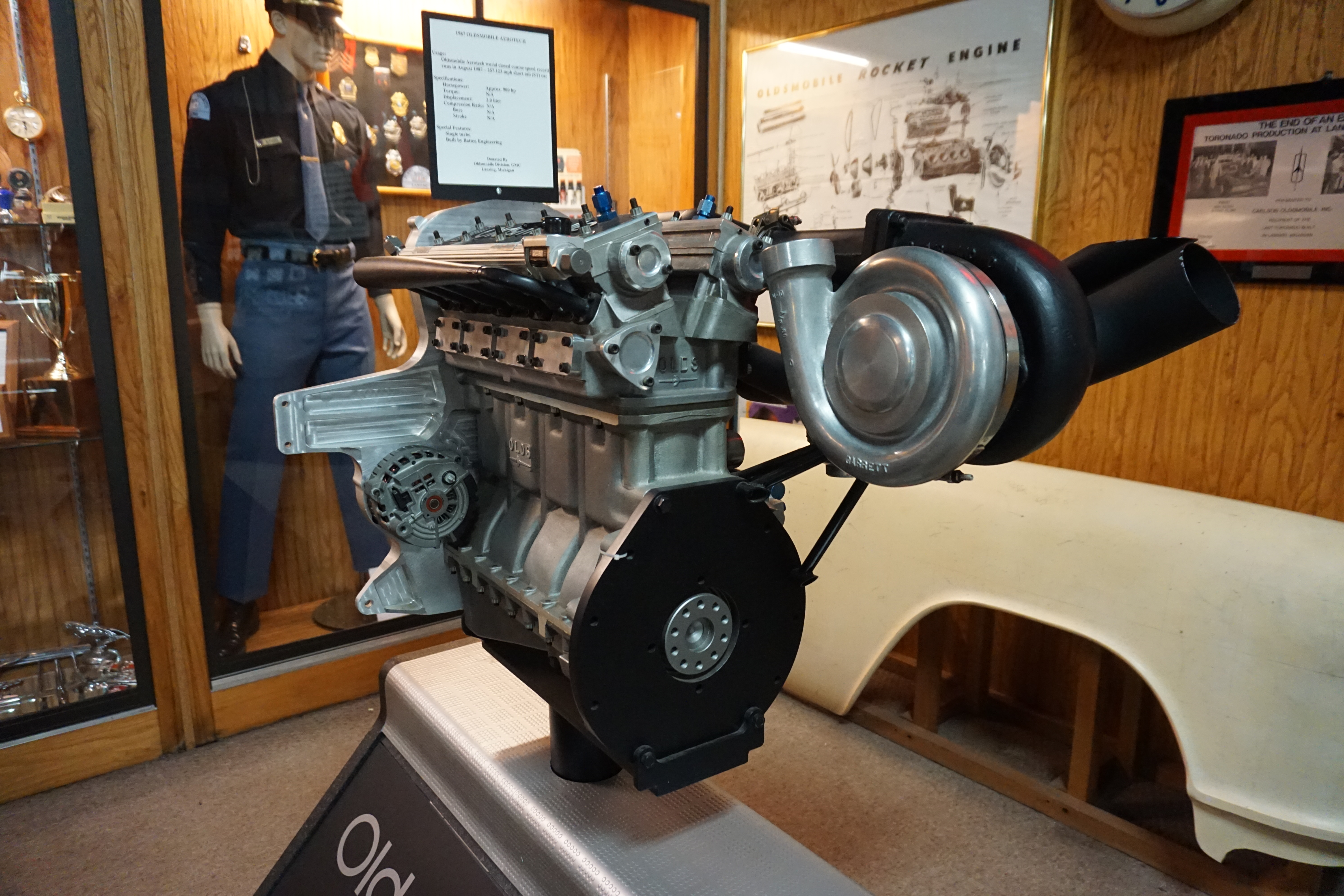 A 1987 Oldsmobile Aerotech engine at the R. E. Olds Transportation Museum in Lansing, Michigan (United States).